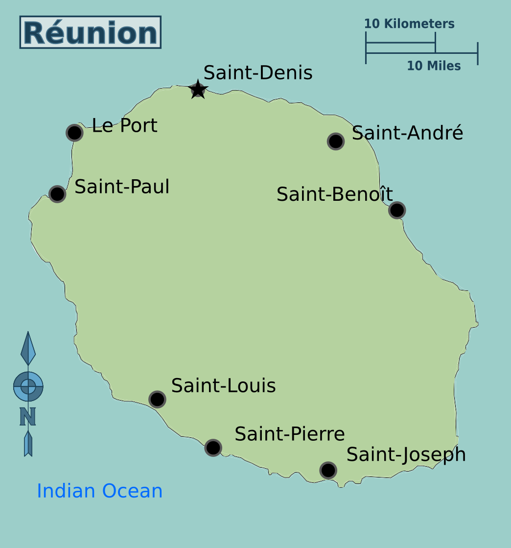 Map of Réunion for Wikivoyage. Created by me in Inkscape from this PD-licensed map: File:Re-map.png